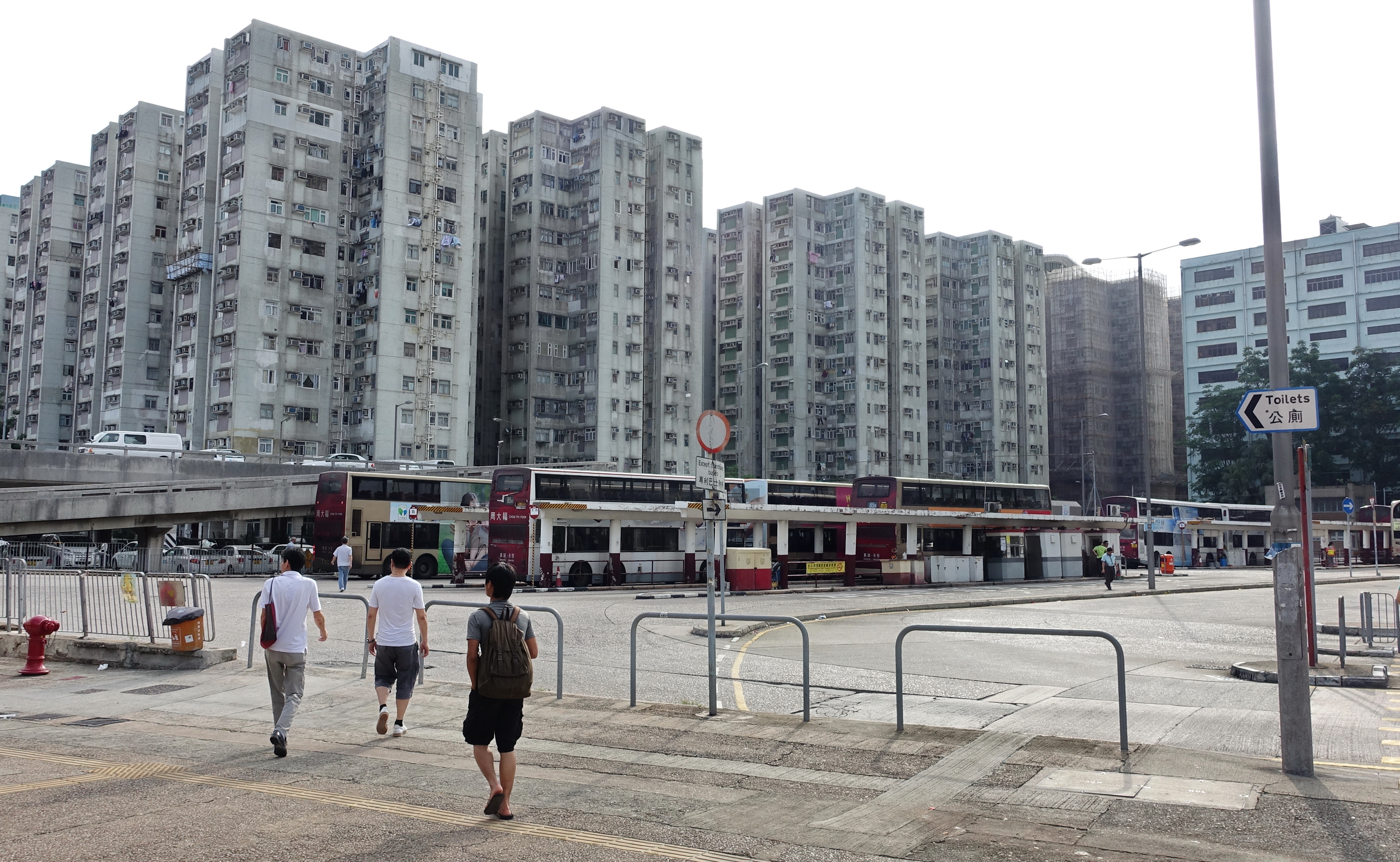 Wyler Gardens, To Kwa Wan, Kowloon, Hong Kong.